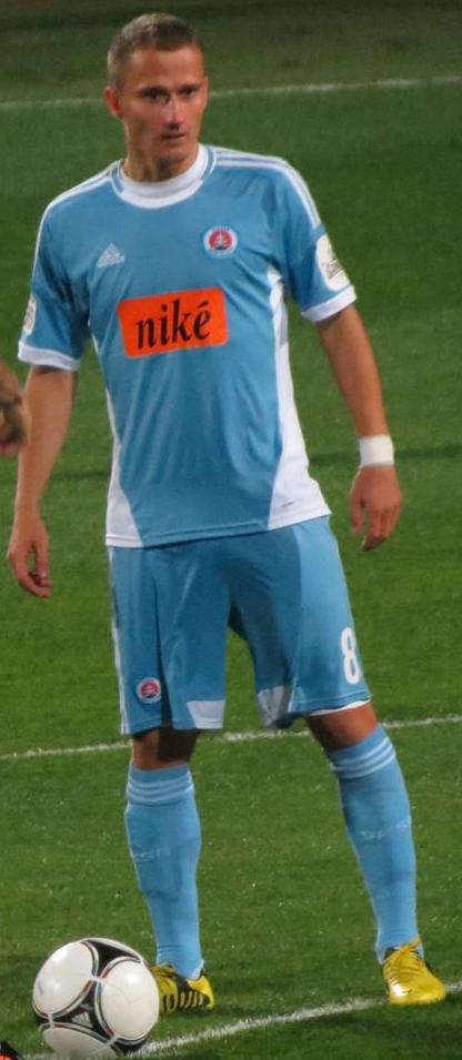 Photo - Slovak footballer Erik Grendel